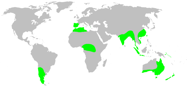 Hexathelidae habitat distribution, drawn after Platnick: World Spider Catalog 7.0. This is not a precise rendering of the distribution! If you have better information, please replace this map, or send me the info, so i will redraw it.